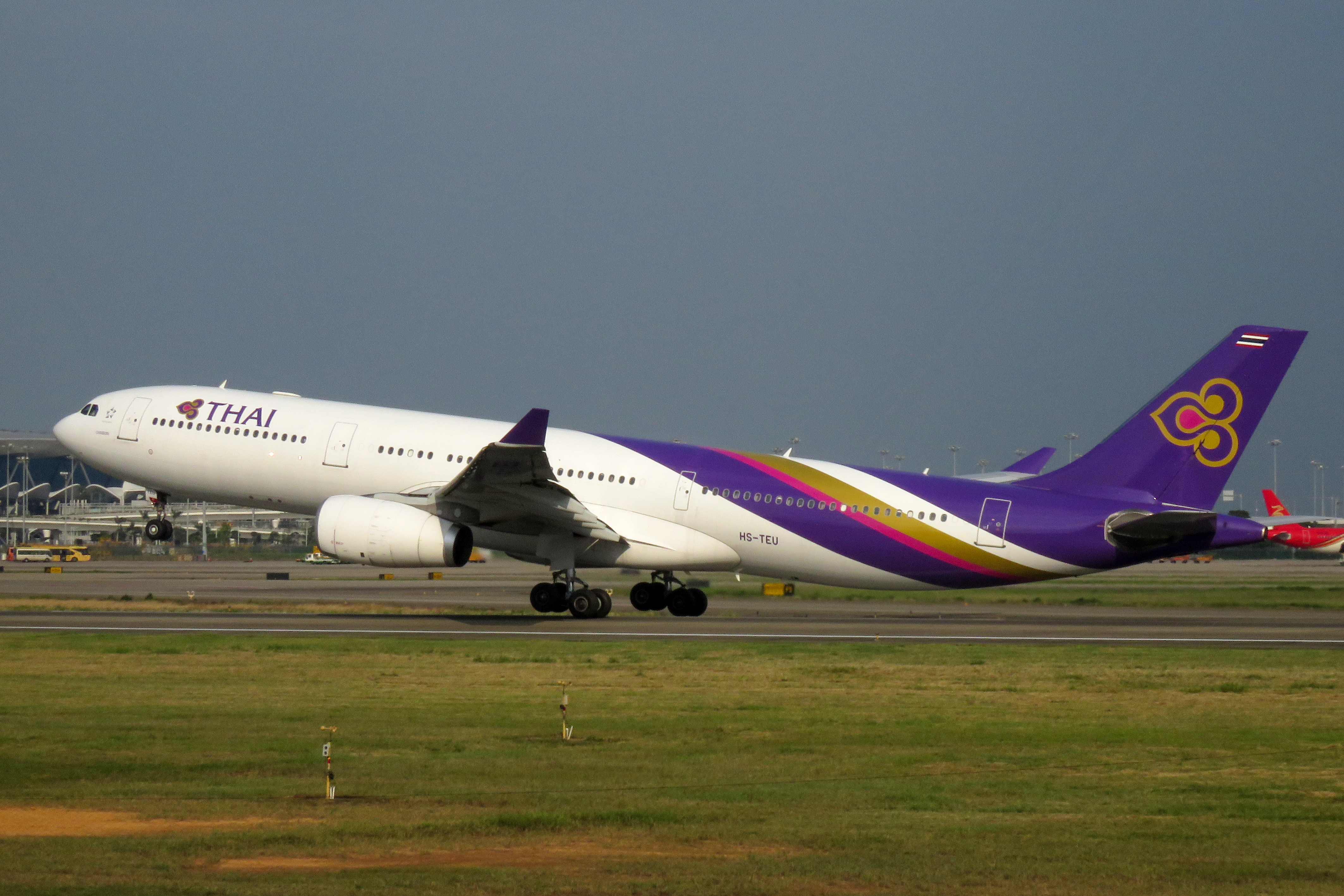 Thai 669 to Bangkok.